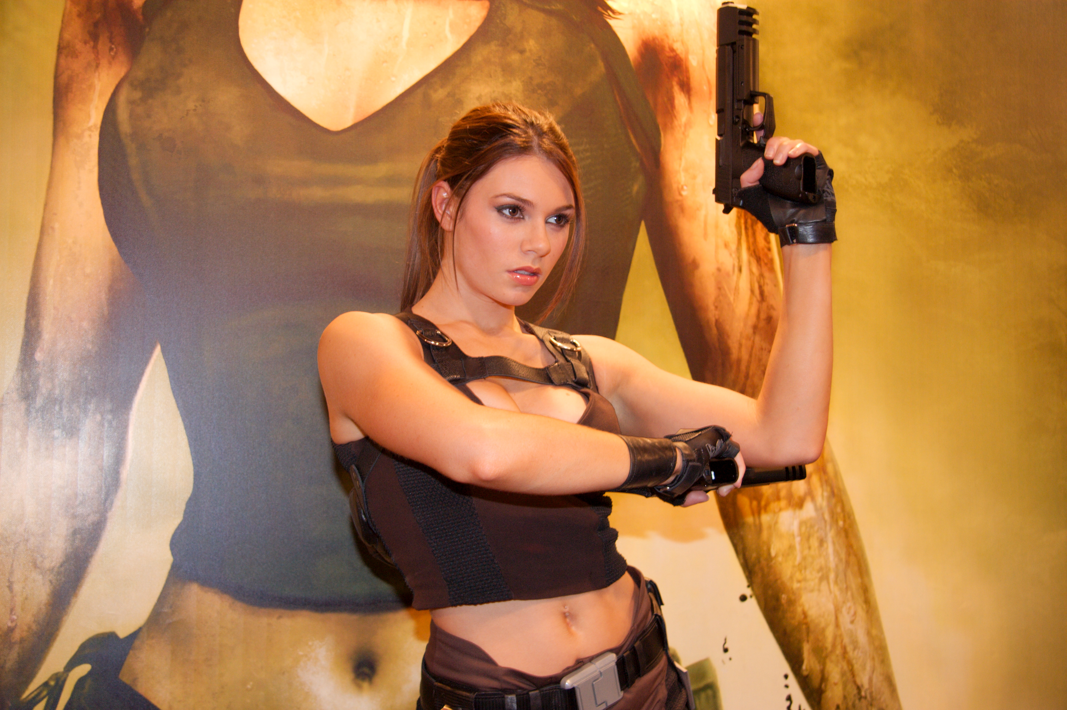 Alison Carroll, the official Lara Croft model for Tomb Raider: Underworld at Festival du jeu vidéo 2008 (Paris, France).